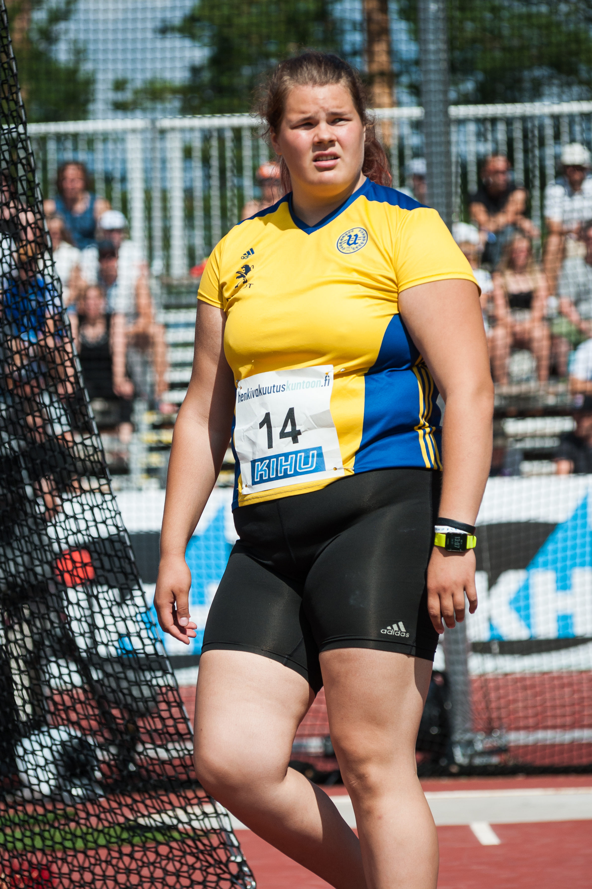 Women's discus throw competition at the 2018 Kalevan Kisat, the Finnish championships in athletics, in Jyväskylä, Finland.